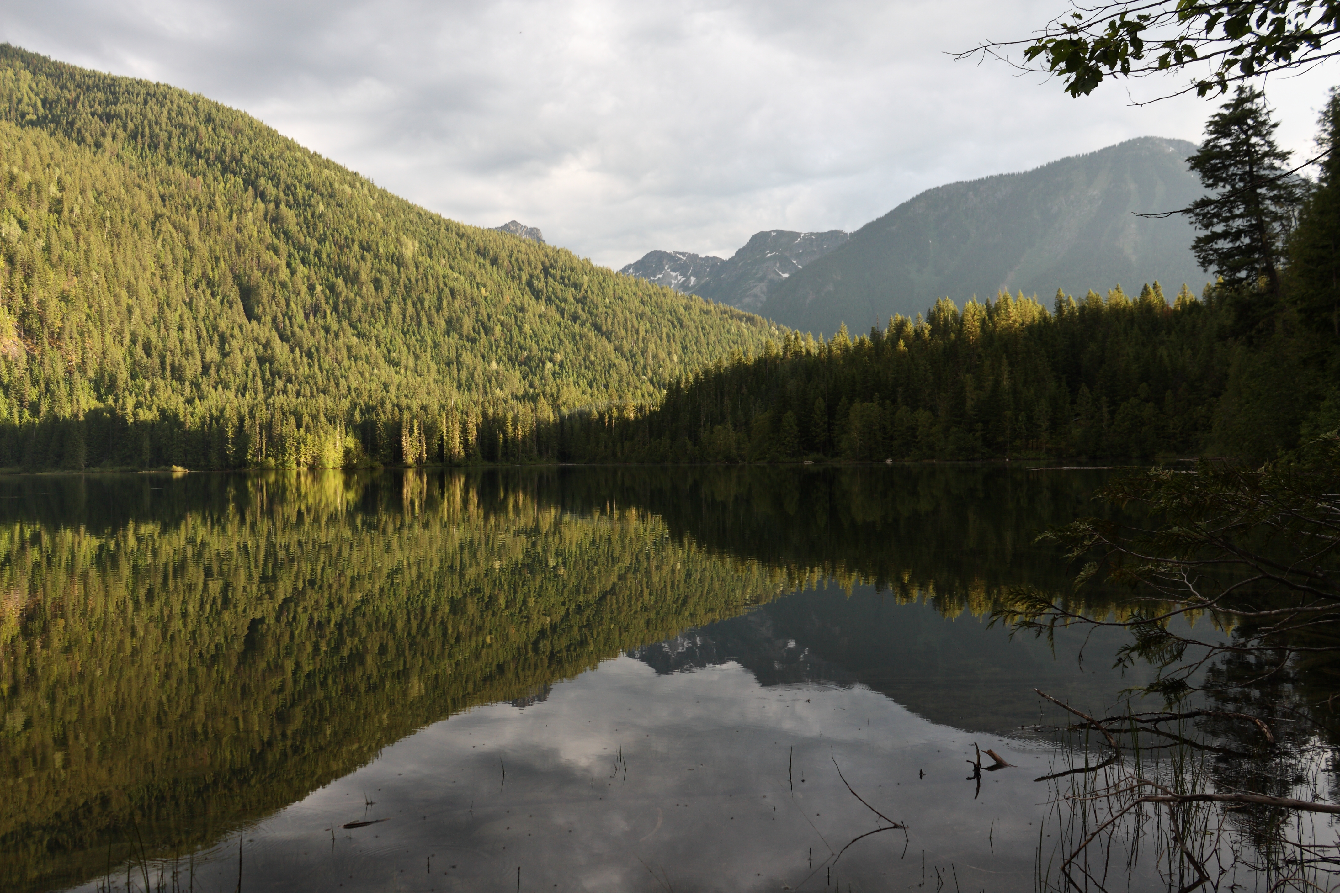 Spectrum Lake in Monashee Provincial Park, British Columbia, Canada. Captured looking southward with the tip of Mount Fosthall in the distant background.